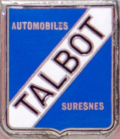 The logo on the radiator of a Talbot Paris car of about 1925. Autoworld Brussels Belgium